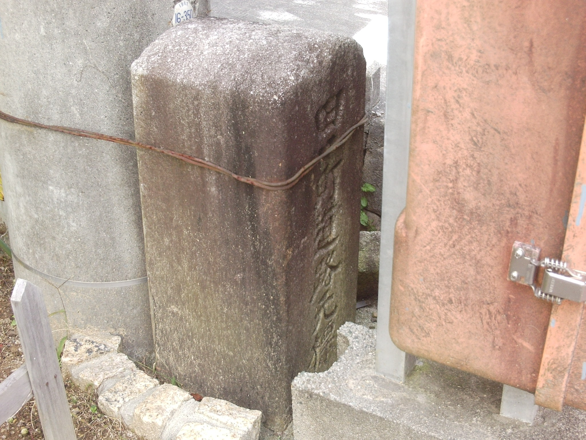 Kilometre zero of Taguchi town. (Taguchi town, Kitashitara-gun, Aichi.)